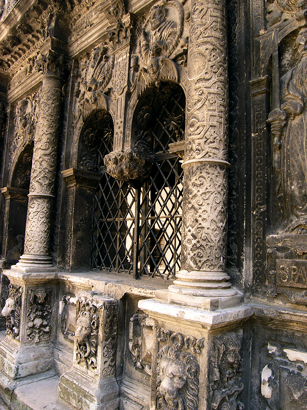 Chapel of Boim family